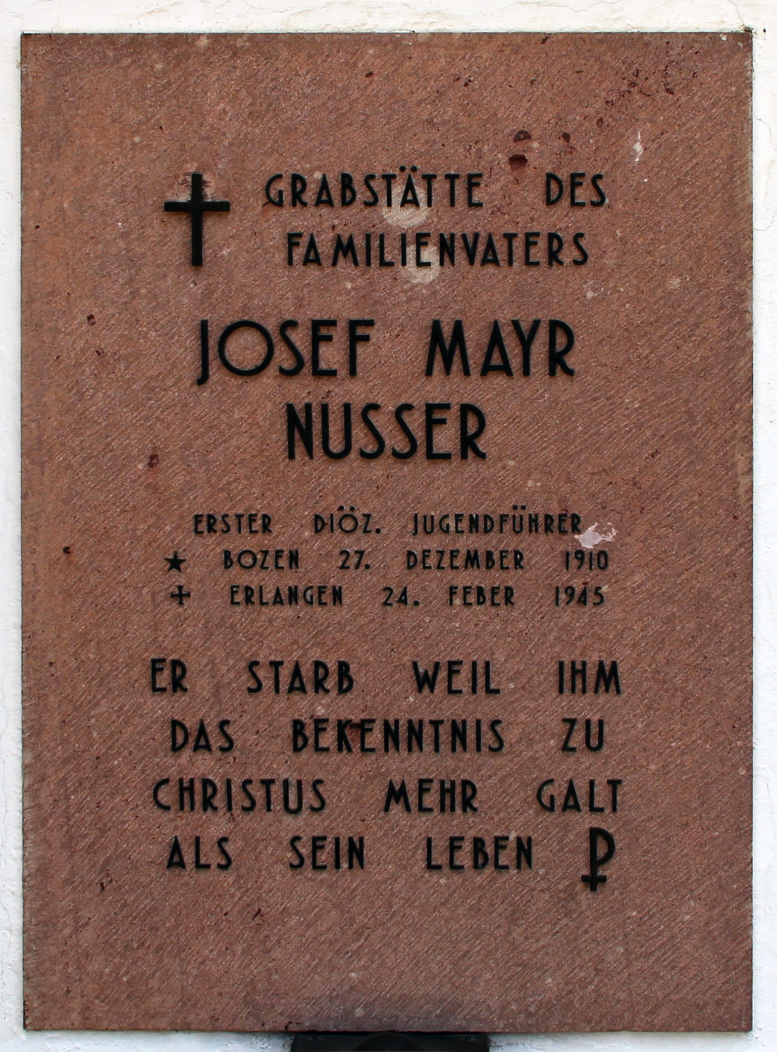 Memorial plaque, Josef Mayr-Nusser, Lichtenstern 1-7, Ritten, Italy